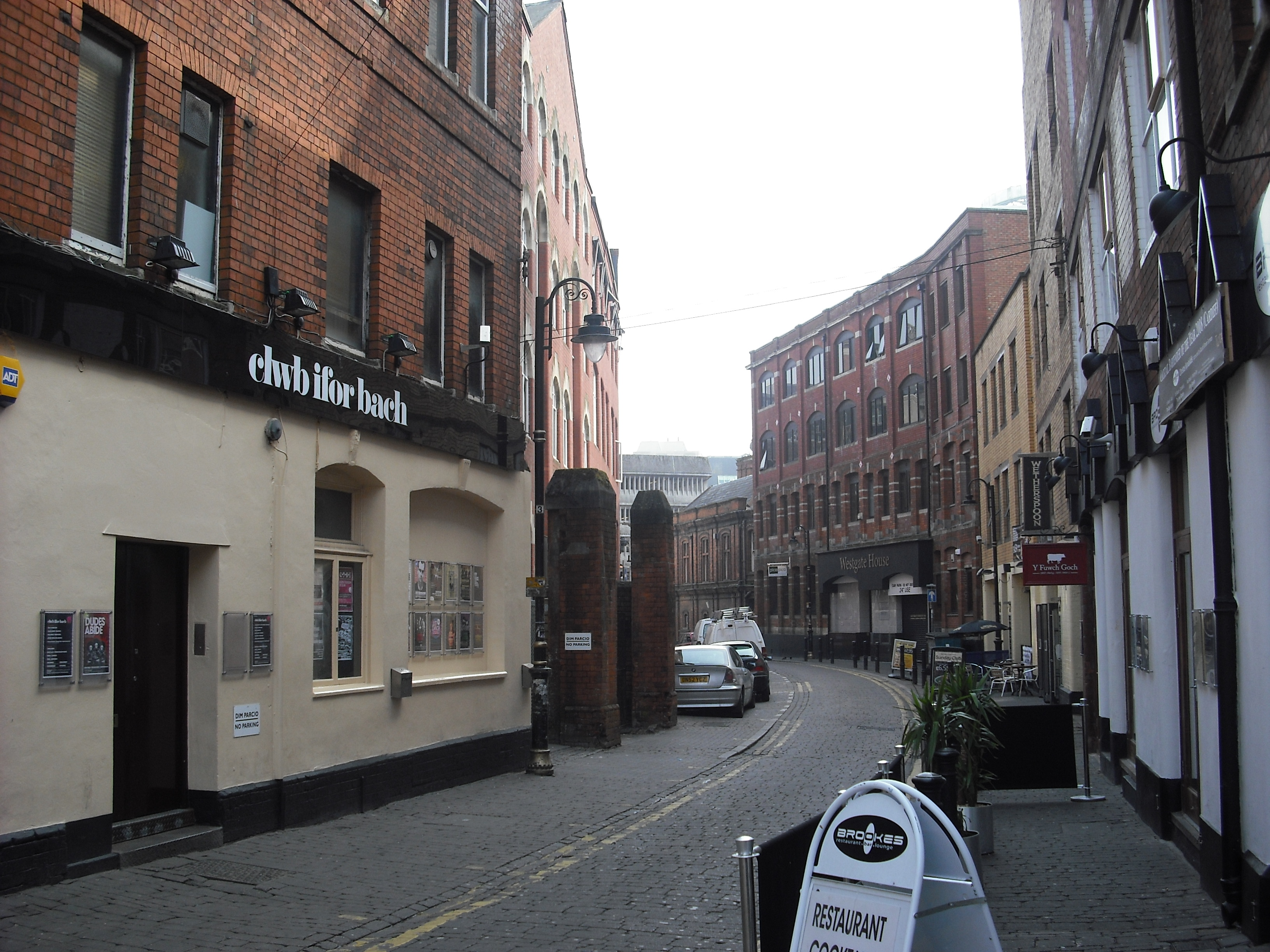 Womanby Street in Cardiff looking south